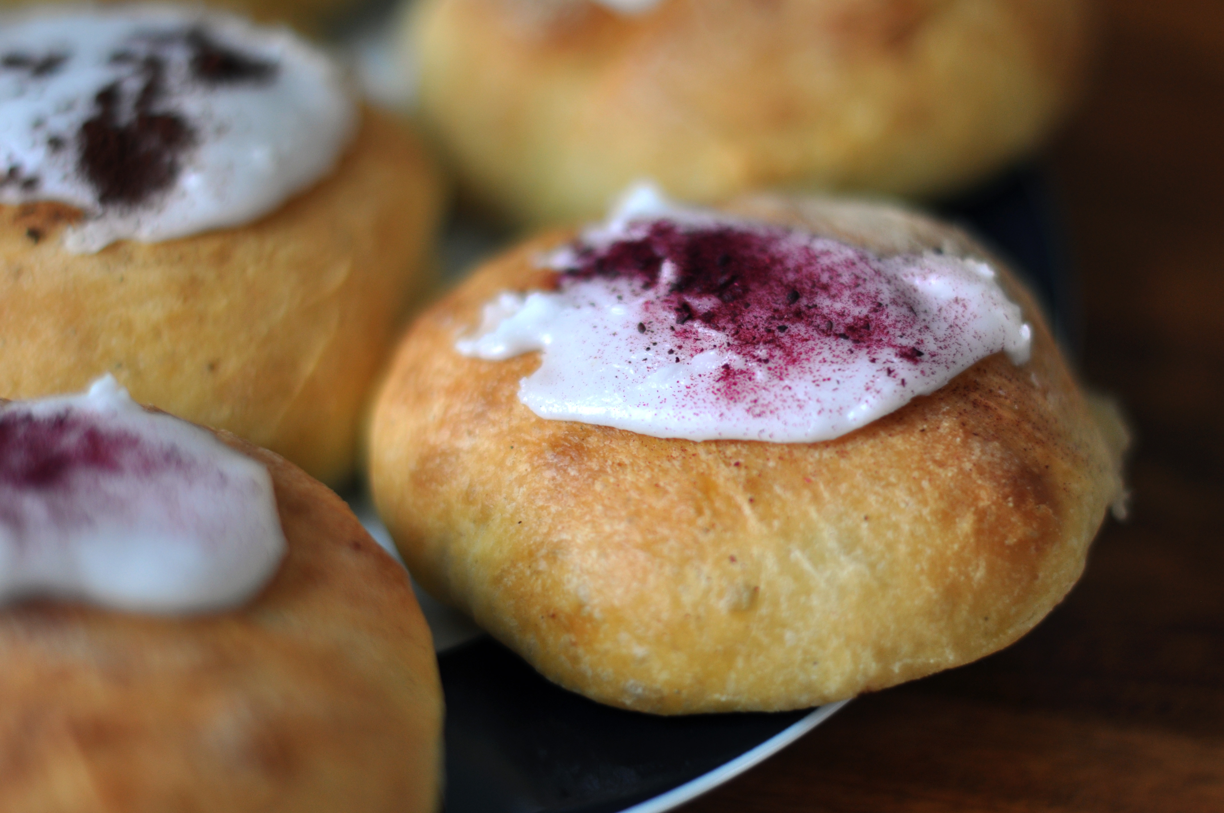 Danish pastry buns topped with marzipan remonce.